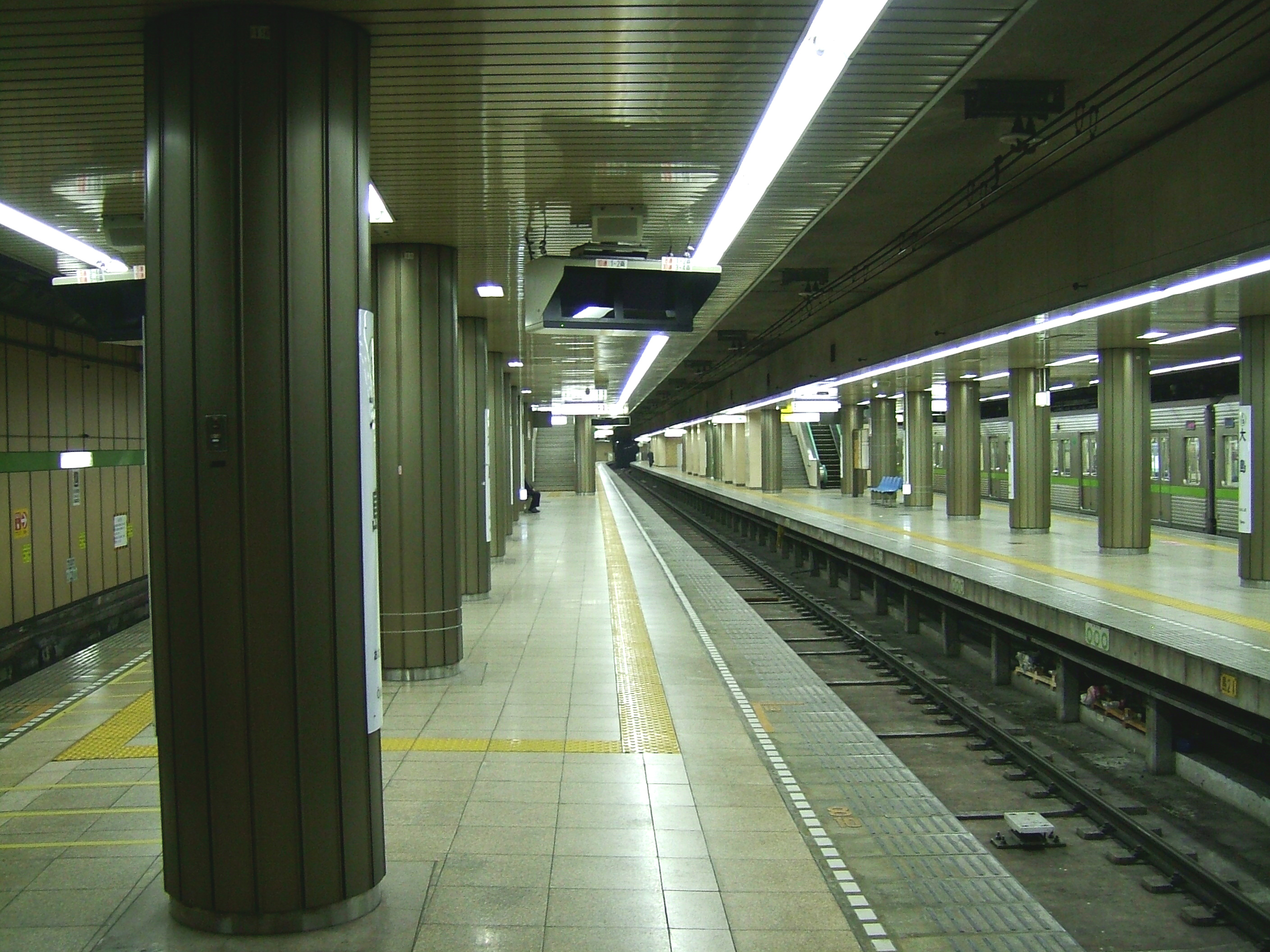 The platforms at Ōjima Station on the Toei Shinjuku Line in Kōtō city, Tokyo, Japan